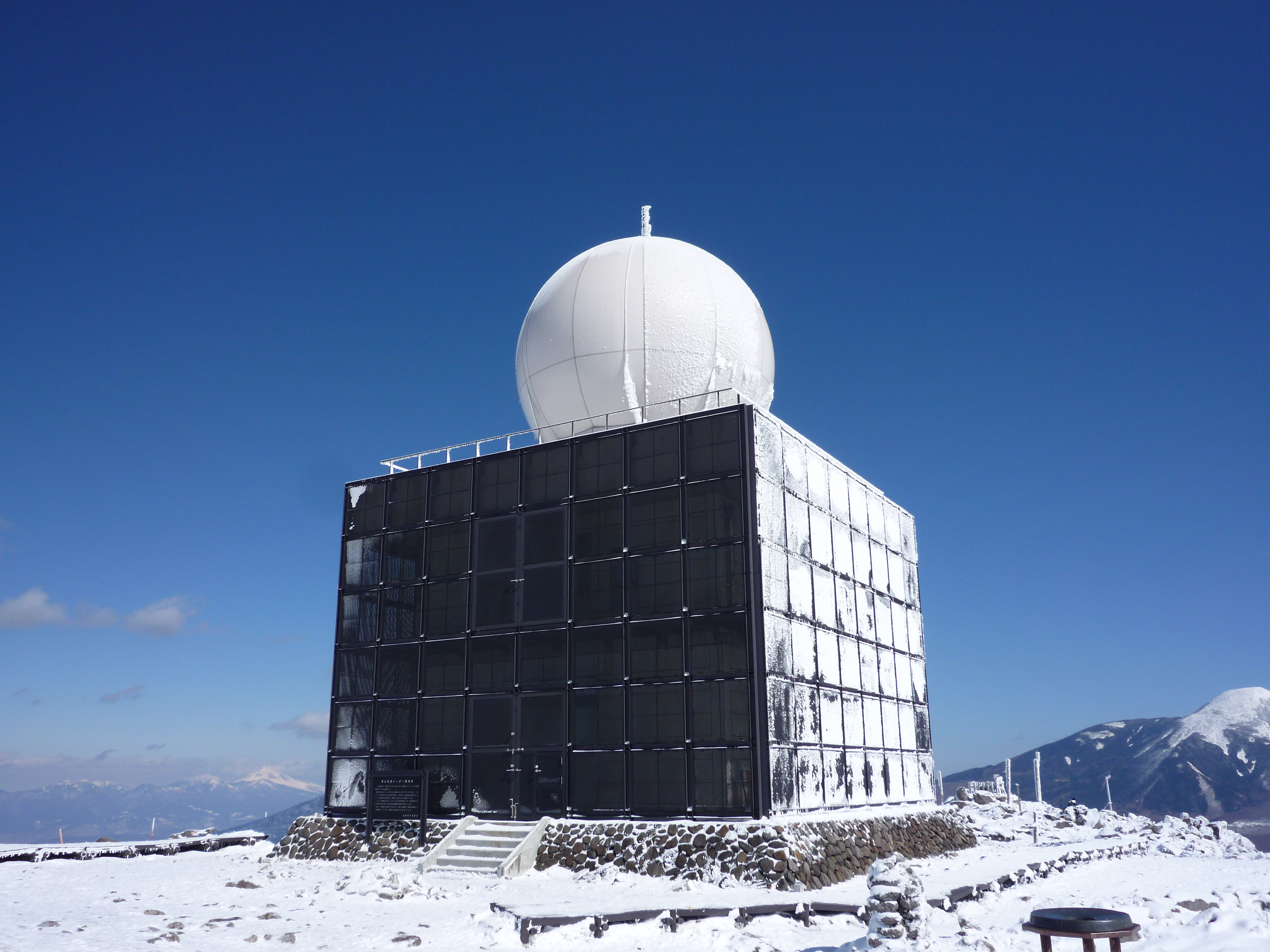 Kurumayama Weather Radar in Nagano, Japan.